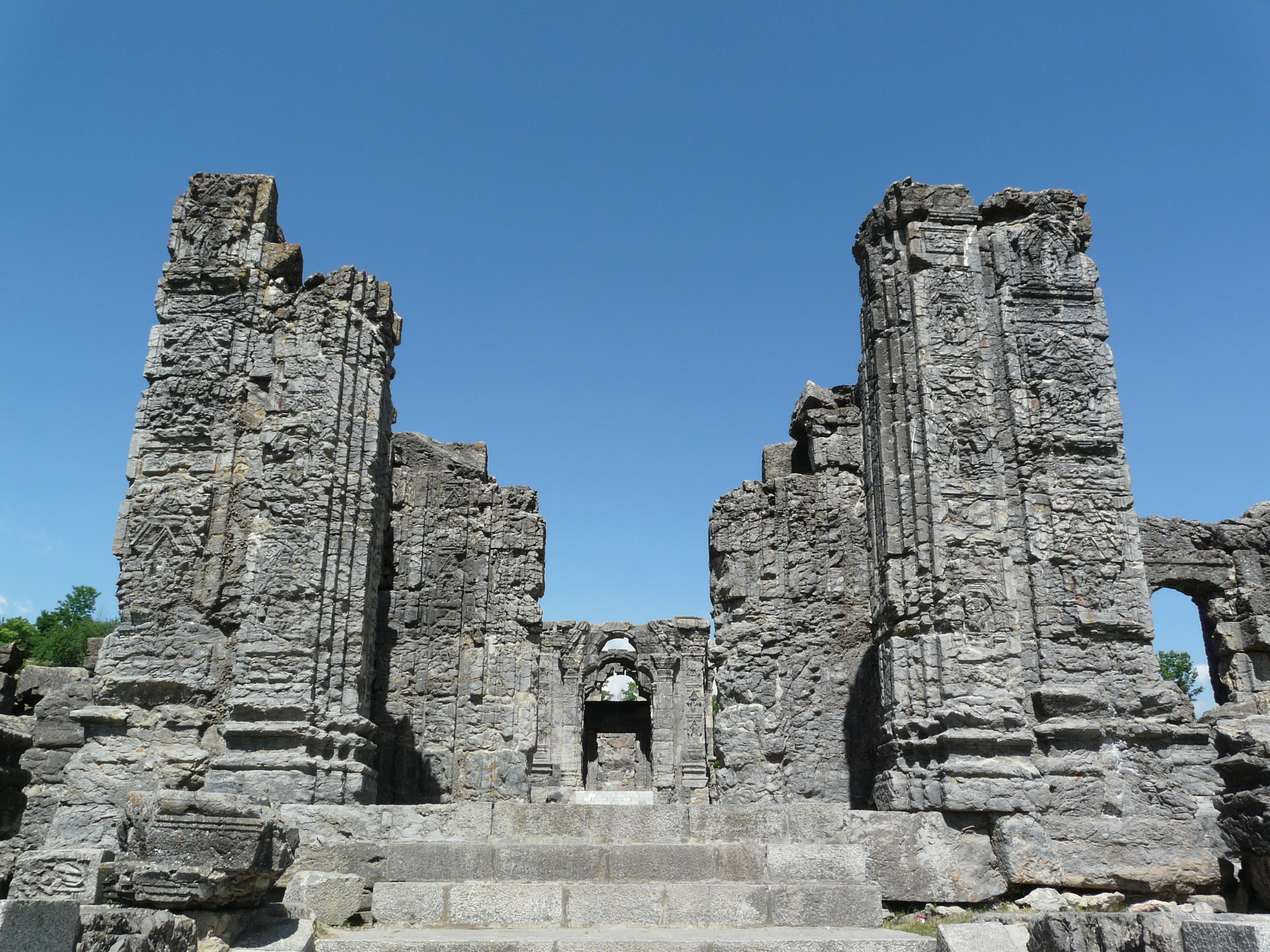 Temple entrance gateway Sun Temple, Martand, Jammu and Kashmir, India